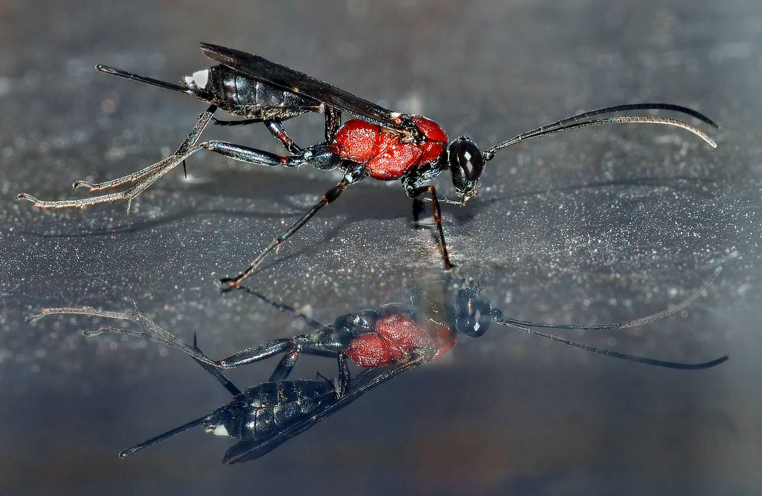 This image shows a 0.37 inch (9.5 mm) long ichneumon wasp of the species Hoplocryptus bellosus. Thanks to Wofl for identifying the family and to Dr. Martin Schwarz for identifying the species later.